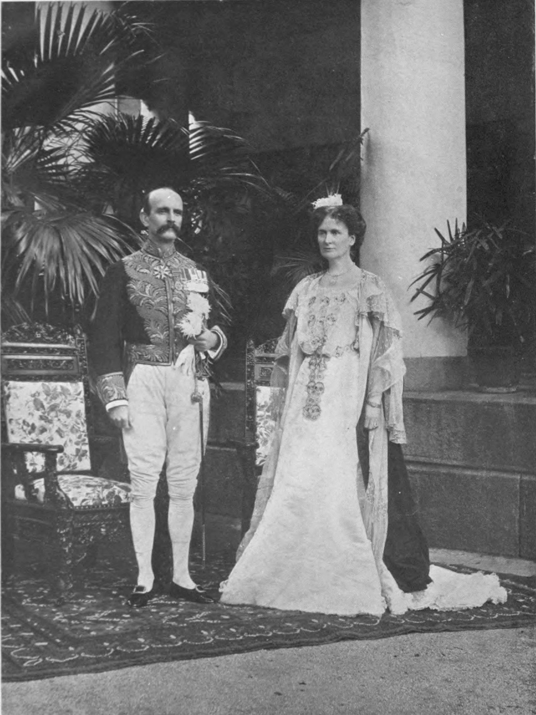 frederick john dealtry lugard and wife